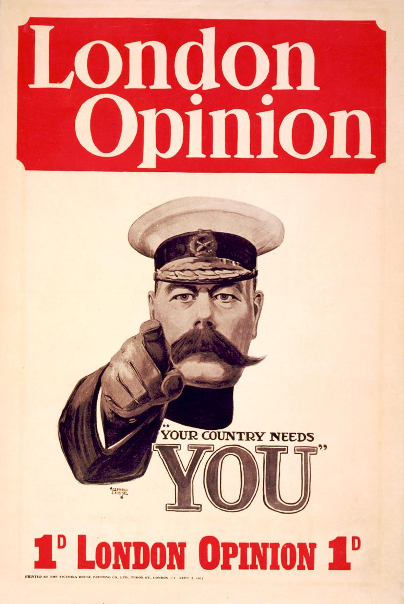 Original Kitchener World War I Recruitment poster.